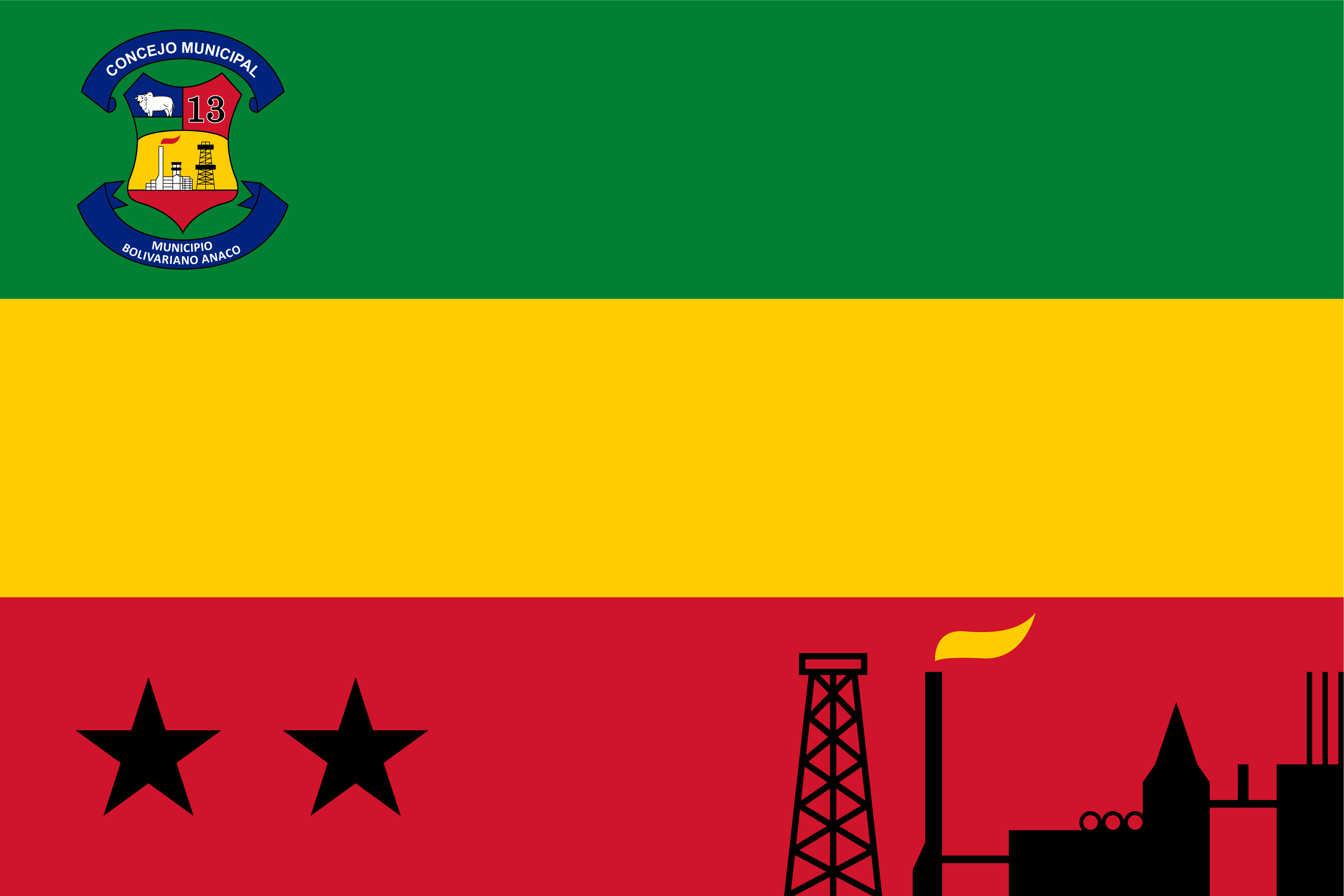 Flag of the Anaco Municipality, Anzoátegui State, Venezuela